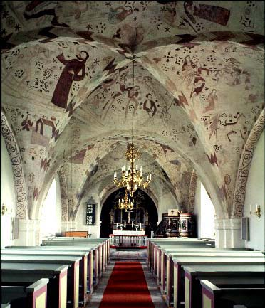 Medieval paintings by Anders Johansson in the church of Linderöd, Sweden